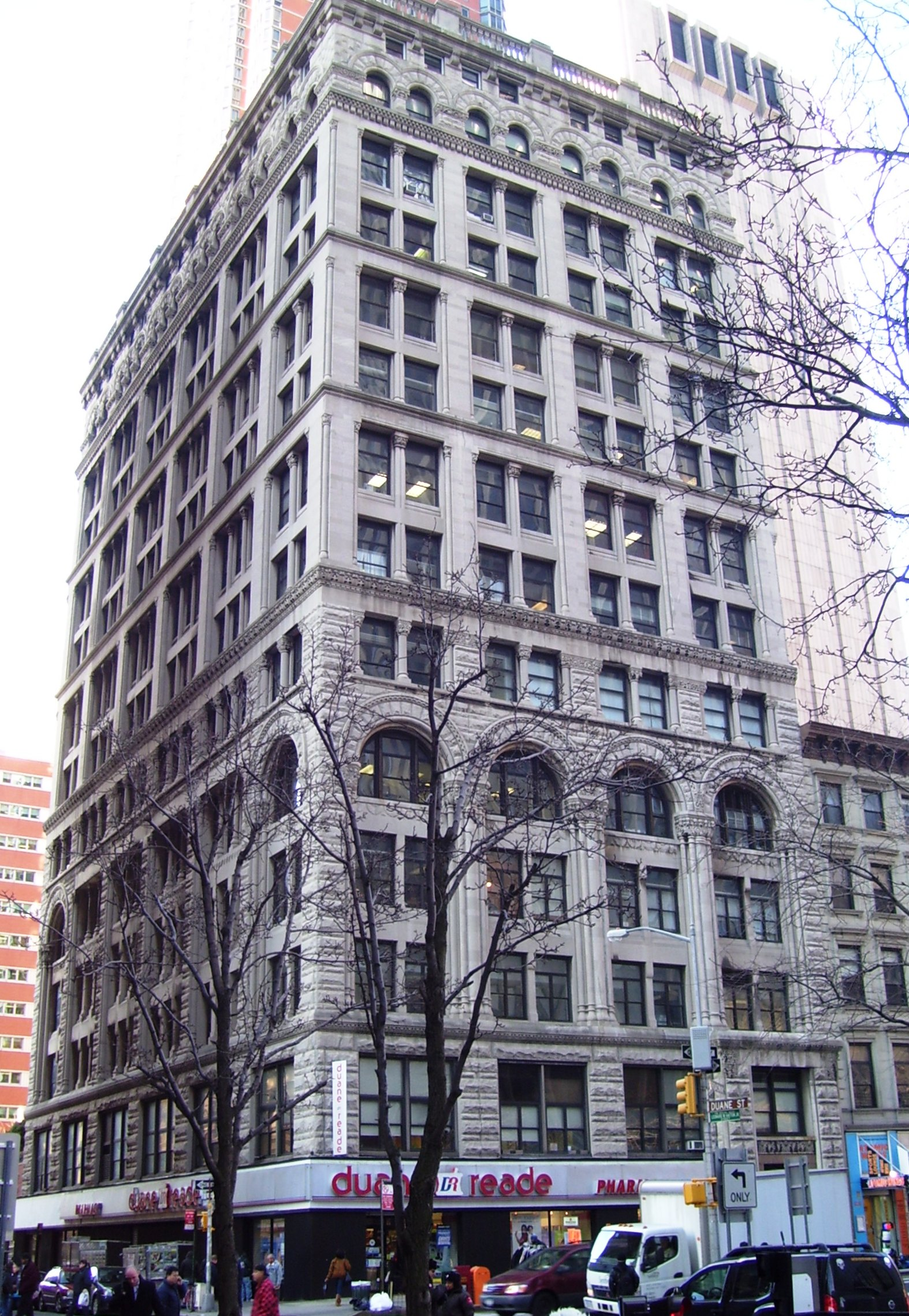 The Mutual Reserve Building at 305 Broadway (305-309, also known as 91-99 Duane Street) at the corner of Duane Street in the Tribeca neighborhood of Manhattan, New York City was built in 1892-94 and was designed by William H. Hume in the Romanesque Revival style in the Richardsonian mode. It was designated a New York City landmark on December 20, 2011. (Source: "NYCLPC Designation Report")